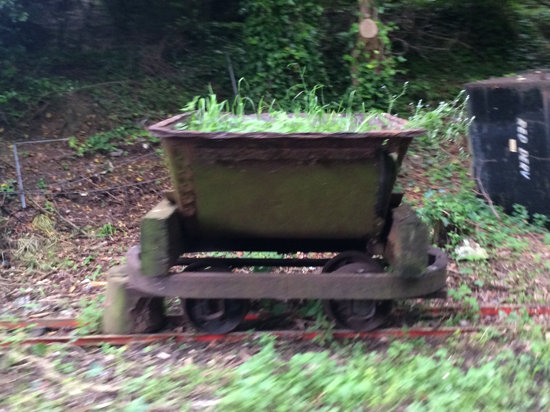 A redundant tipper wagon on the Wells & Walsingham Light Railway.